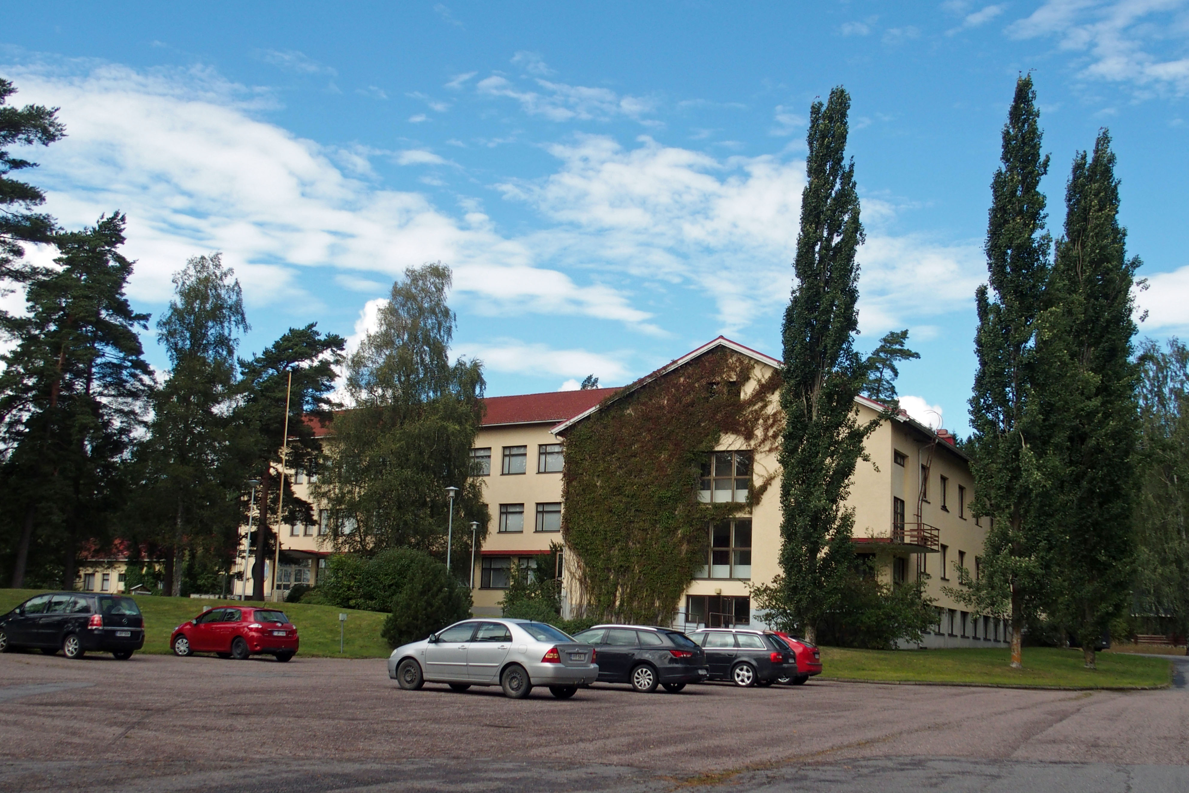 Christian college in Hirvikoski, Loimaa, Finland.